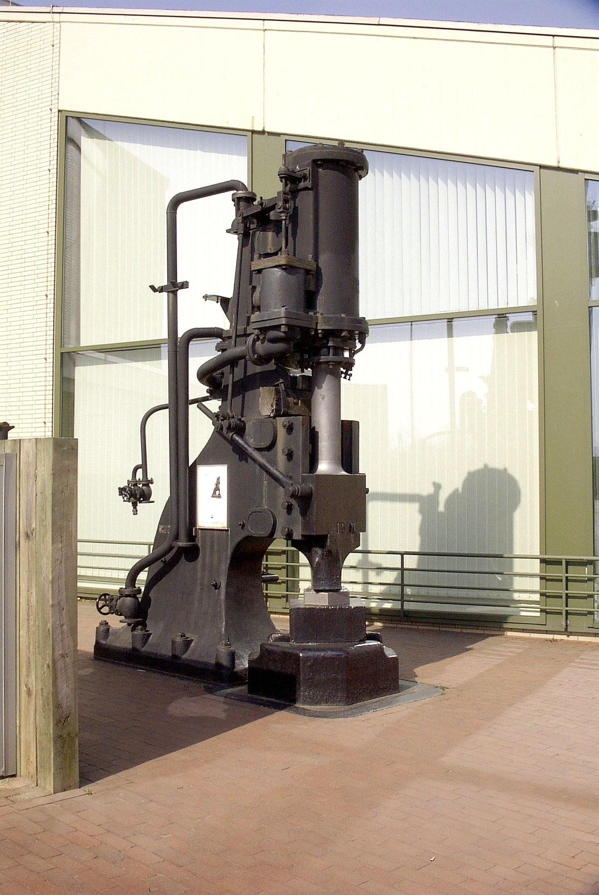 Steam hammer